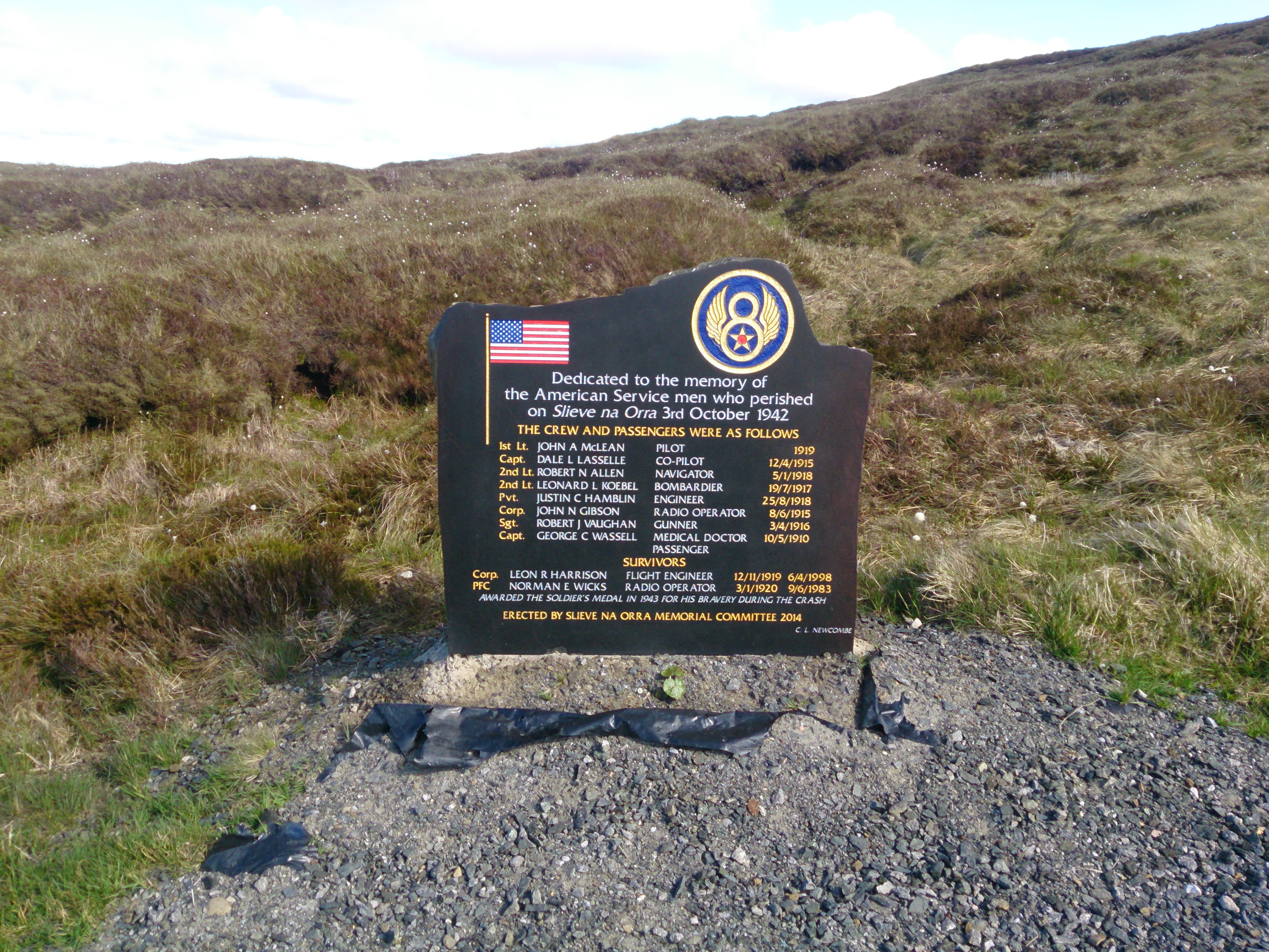 A memorial on Slieveanorra mountain to the American servicemen who died in a plane crash on October 1942.